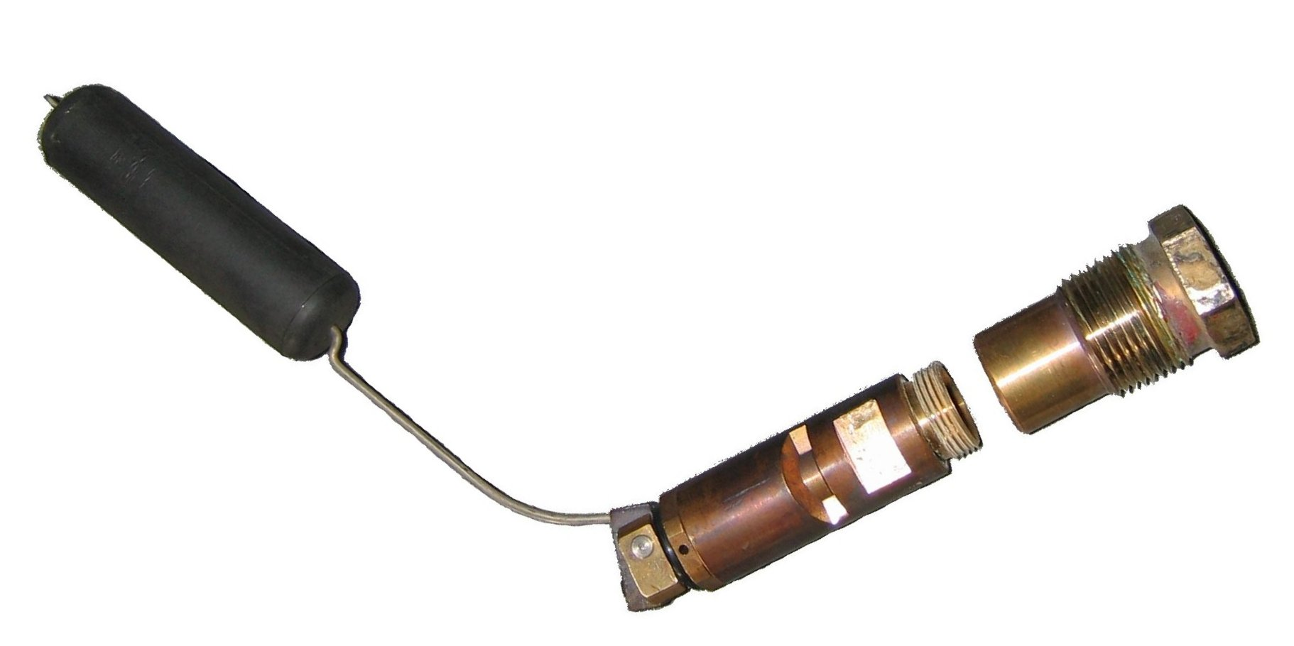 Autogas (LPG) tank fill and AFL valves. New version has been edited to better display in wiki pages